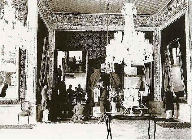 Interior of the Golestan Palace, circa 1860. Historical photograph by Antoin Sevruguin.